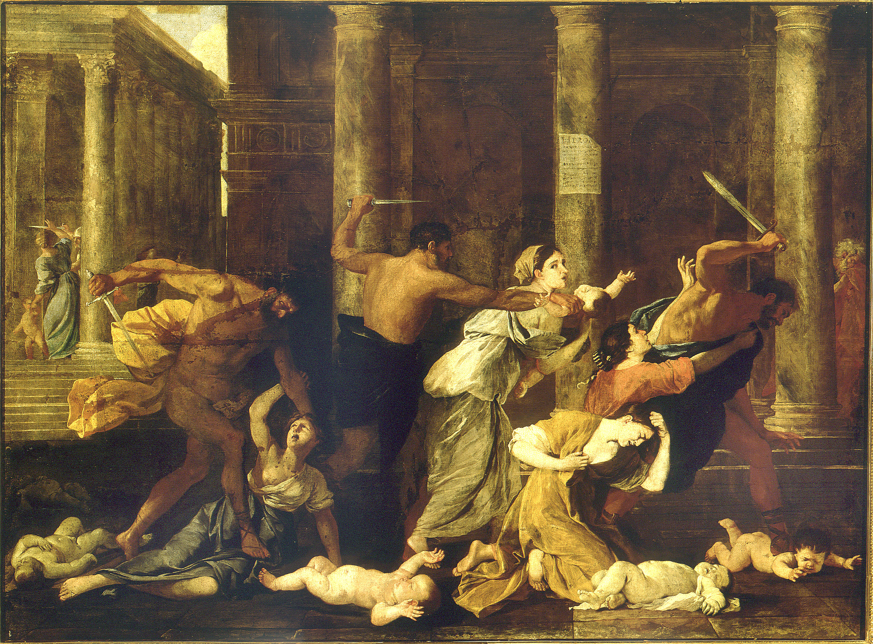 The Gospel of St. Matthew tells the story of the Massacre of the Innocents. King Herod ordered the killing of all boys under the age of two born in the Bethlehem area, for the Magi had told him that a child destined to become the king of the Jews had been born in the city. Jesus was saved from the massacre when his Family fled to Egypt. (see references)